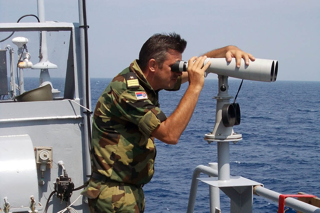 A member of the Serbian River Flotilla deployed on EU Maritime Forces in Somalia (EUNAVFOR Somalia)